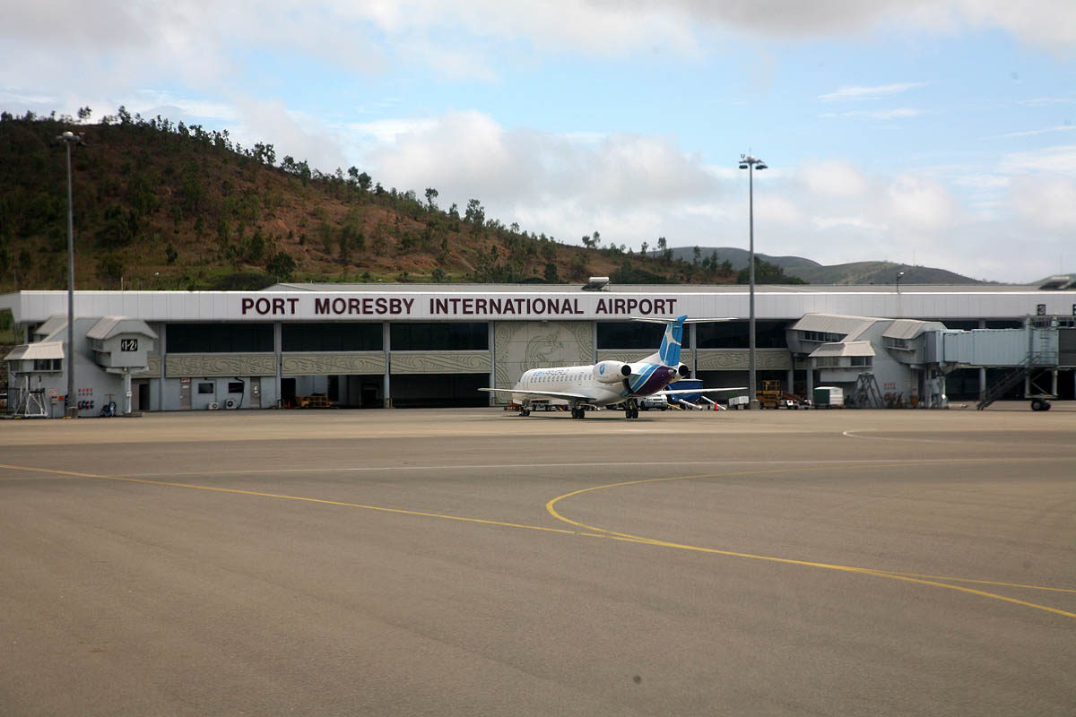 Jacksons International Airport, Port Moresby, Papua New Guinea. 2008